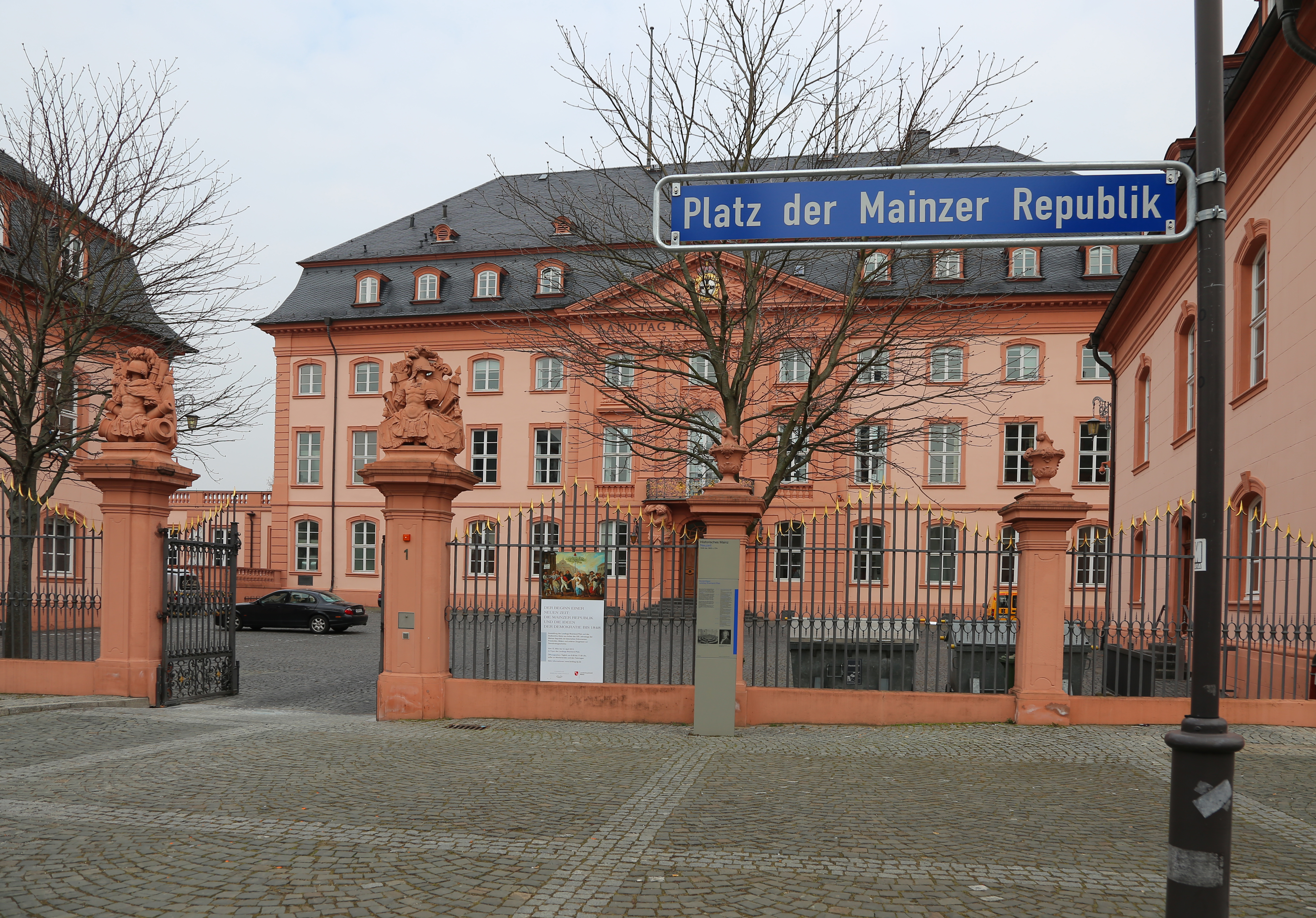 "Platz der Mainzer Republik 1". Behind the Deutschordenhaus from the middle 18th century, which serve for a seat for the Rheinisch-Deutscher Nationalkonvent from the Mainzer Republic (1793) and, since 1950, for the Parliament of Rheinland-Pfalz.